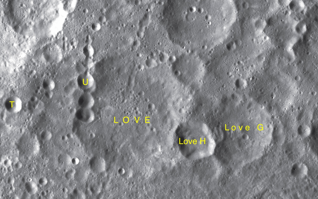 Parts of the charts LAC-83, LAC-84 used for the presentation